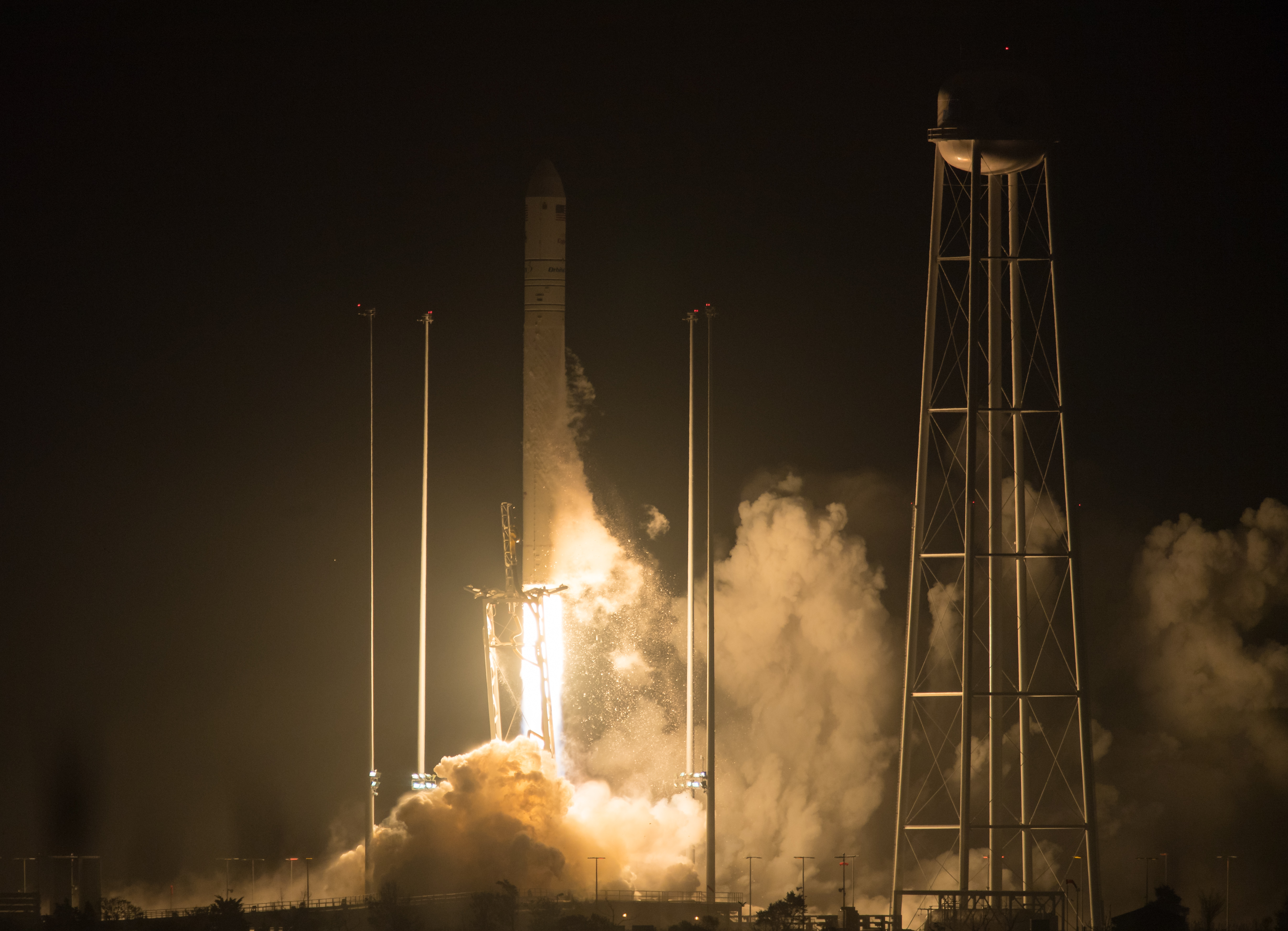 The Orbital ATK Antares rocket, with the Cygnus spacecraft onboard, launches from Pad-0A, Monday, May 21, 2018 at NASA's Wallops Flight Facility in Virginia. Orbital ATK’s ninth contracted cargo resupply mission with NASA to the International Space Station will deliver approximately 7,400 pounds of science and research, crew supplies and vehicle hardware to the orbital laboratory and its crew.